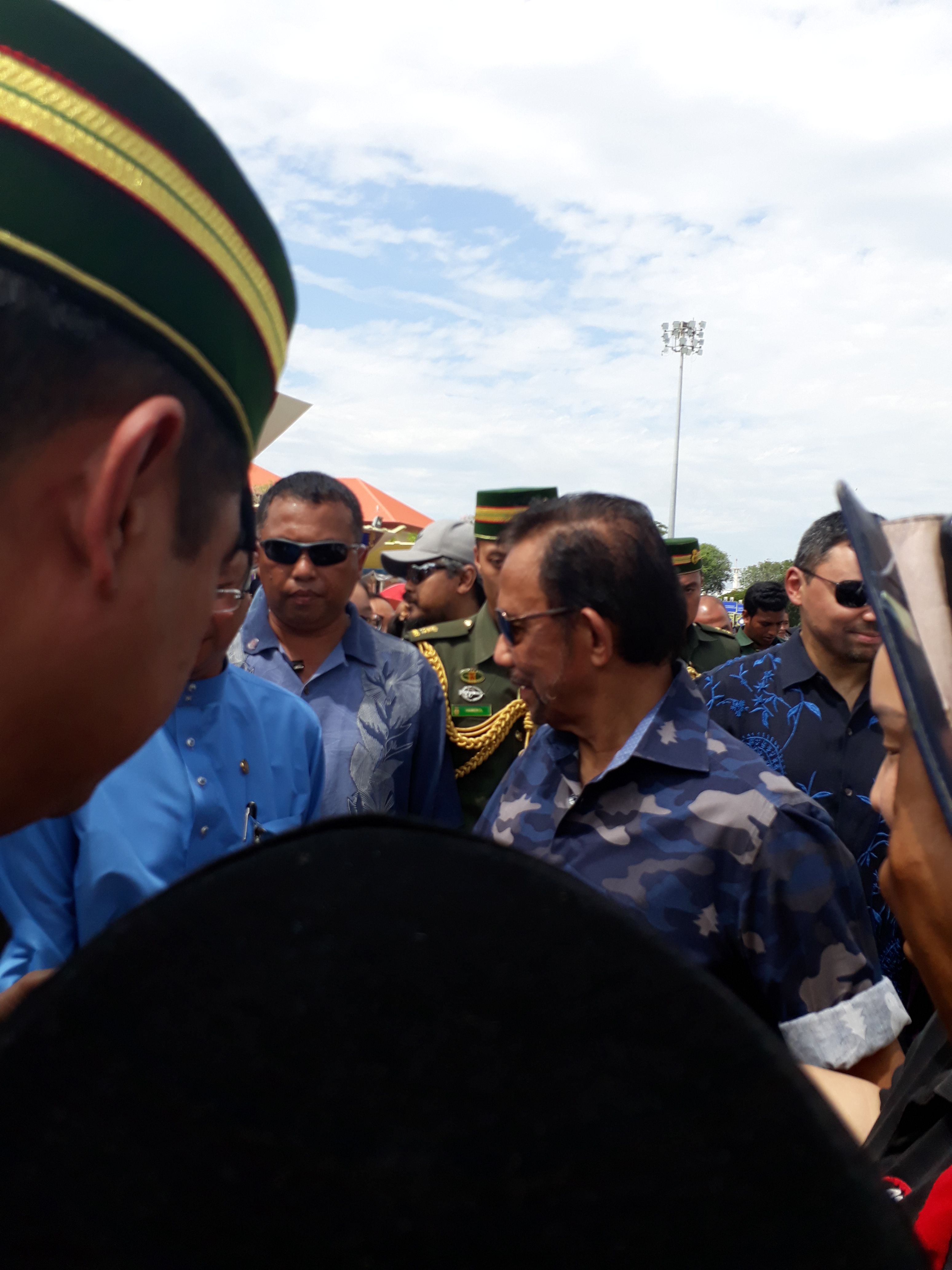 The Sultan of Brunei meets and greets his people during His Majesty's birthday celebration at Kuala Belait on 21st July 2018.